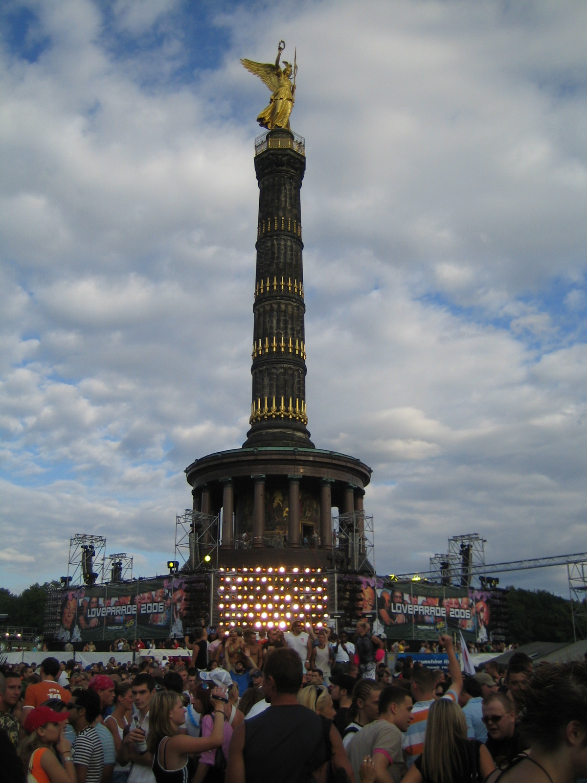 Love Parade 2006 in Berlin/Germany